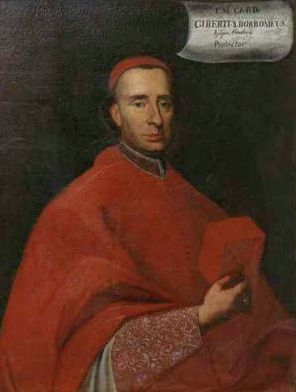 Giberto Borromeo (1671-1740), cardinal of the Roman Catholic Church